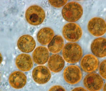 Symbiodinium